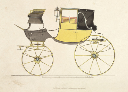 Print, one of a series of nine showing early 19th century carriages, published by R Ackermann, 101 Strand, London.